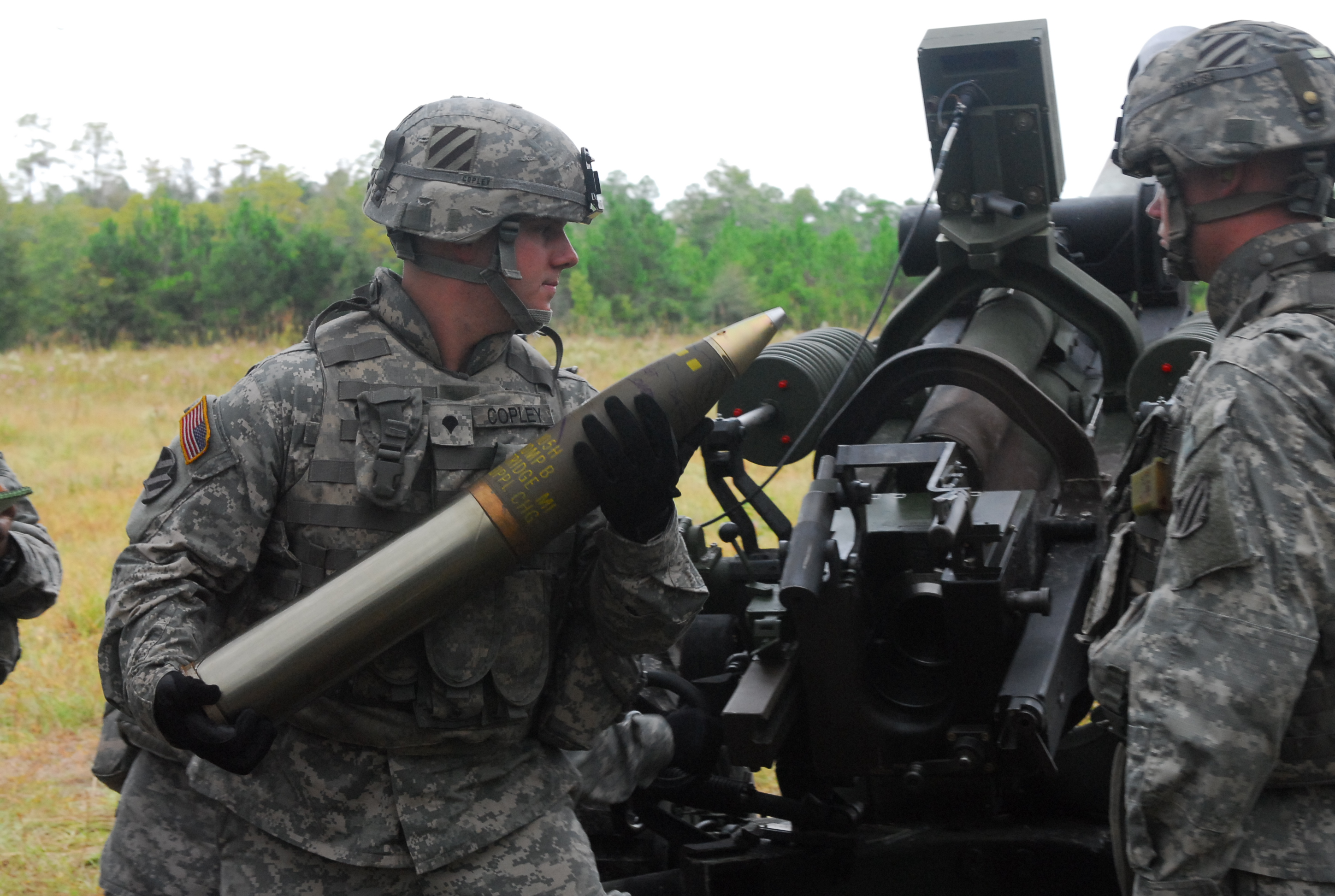 Specialist Michael Copley, Battery B, 1/76 FA, loads the M119 Howitzer during his section's qualification table at Fort Stewart, Oct. 6